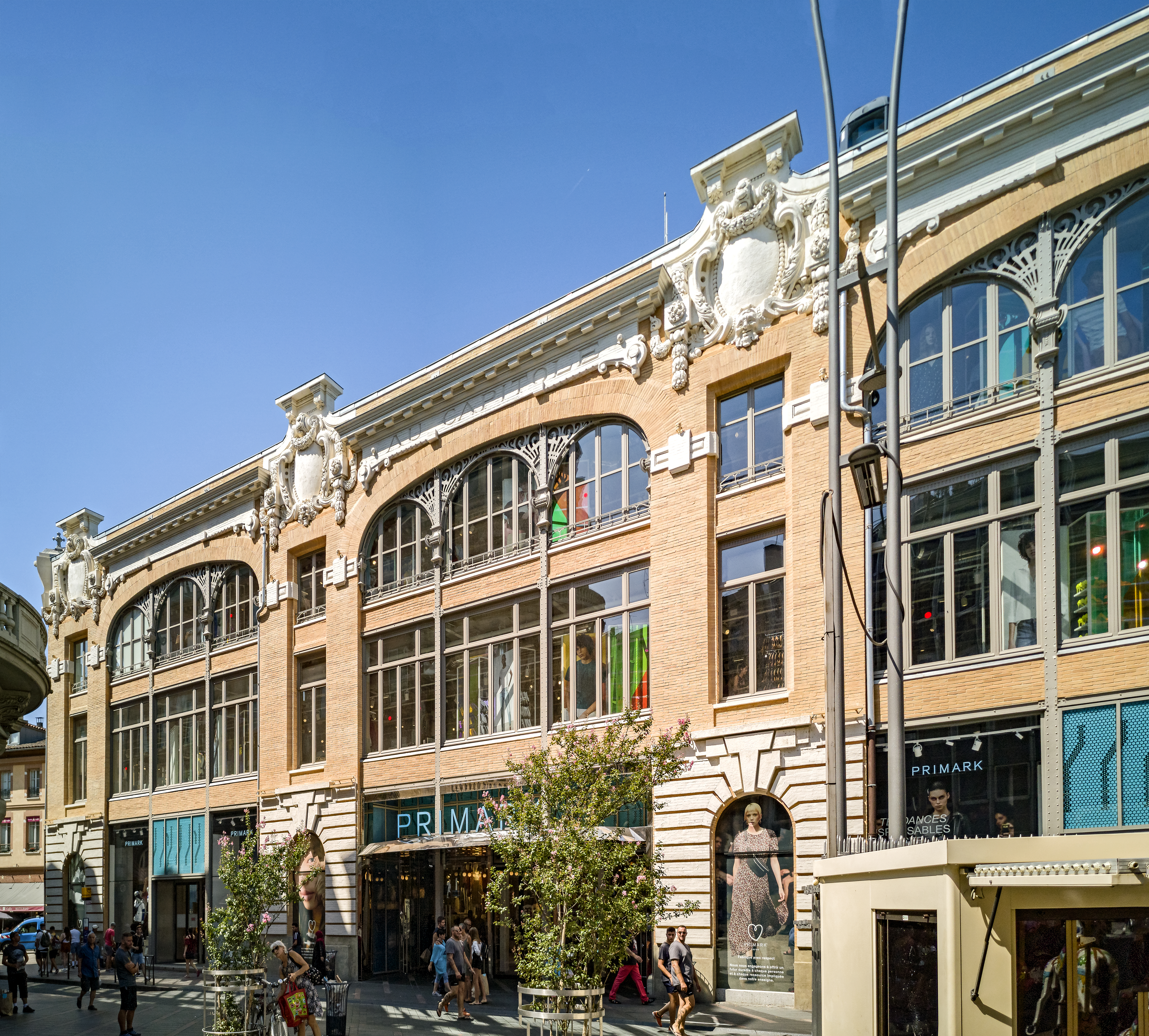 Department Store, Au Capitole , was built between 1903 and 1904 by the company Aux Dames de France, on the plans of the Parisian architect Georges Debrie, in the Art Nouveau style;41, Rue de Rémusat in Toulouse.